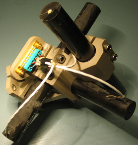 SEARCH COIL MAGNETOMETER (SCM) used on THEMIS mission. THEMIS satellites are to be distanced at 10 to 30 Earth Radii from Earth as to measure local feild magnetism created by electo-magnetic eddies created by solar winds interacting with earths magnetic field. THEMIS - Search coil magnetometer. NASA